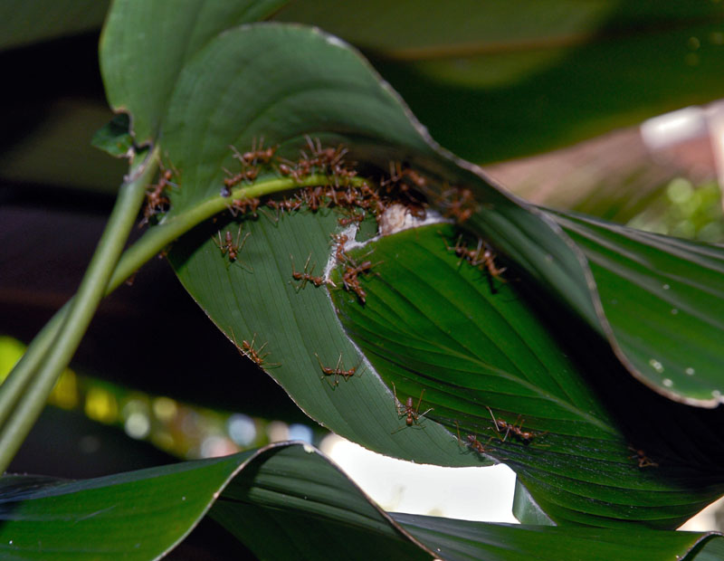 Malaysian fire ant nest in leaf.